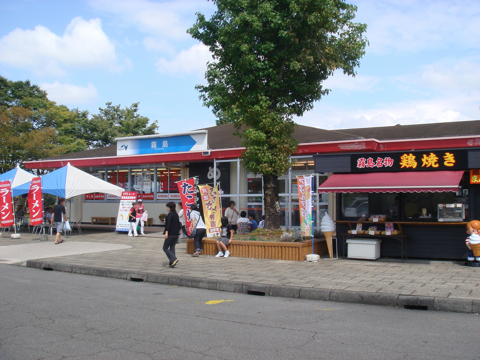 Kirishima Service Area (Miyazaki Expressway) / for Miyazaki